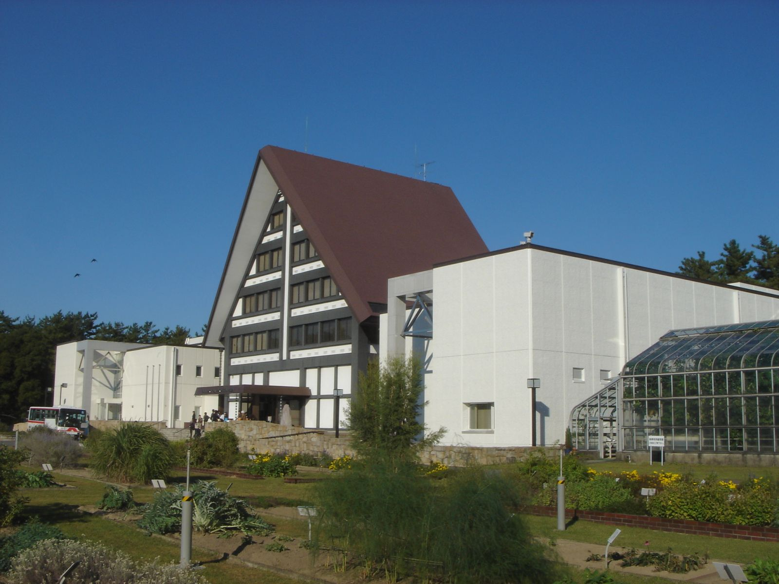 Naito_Museum_of_Pharmaceutical_Science_and_Industry（内藤記念くすり博物館）,Yamagata,Gifu,Japan(岐阜県山県市)で撮影。